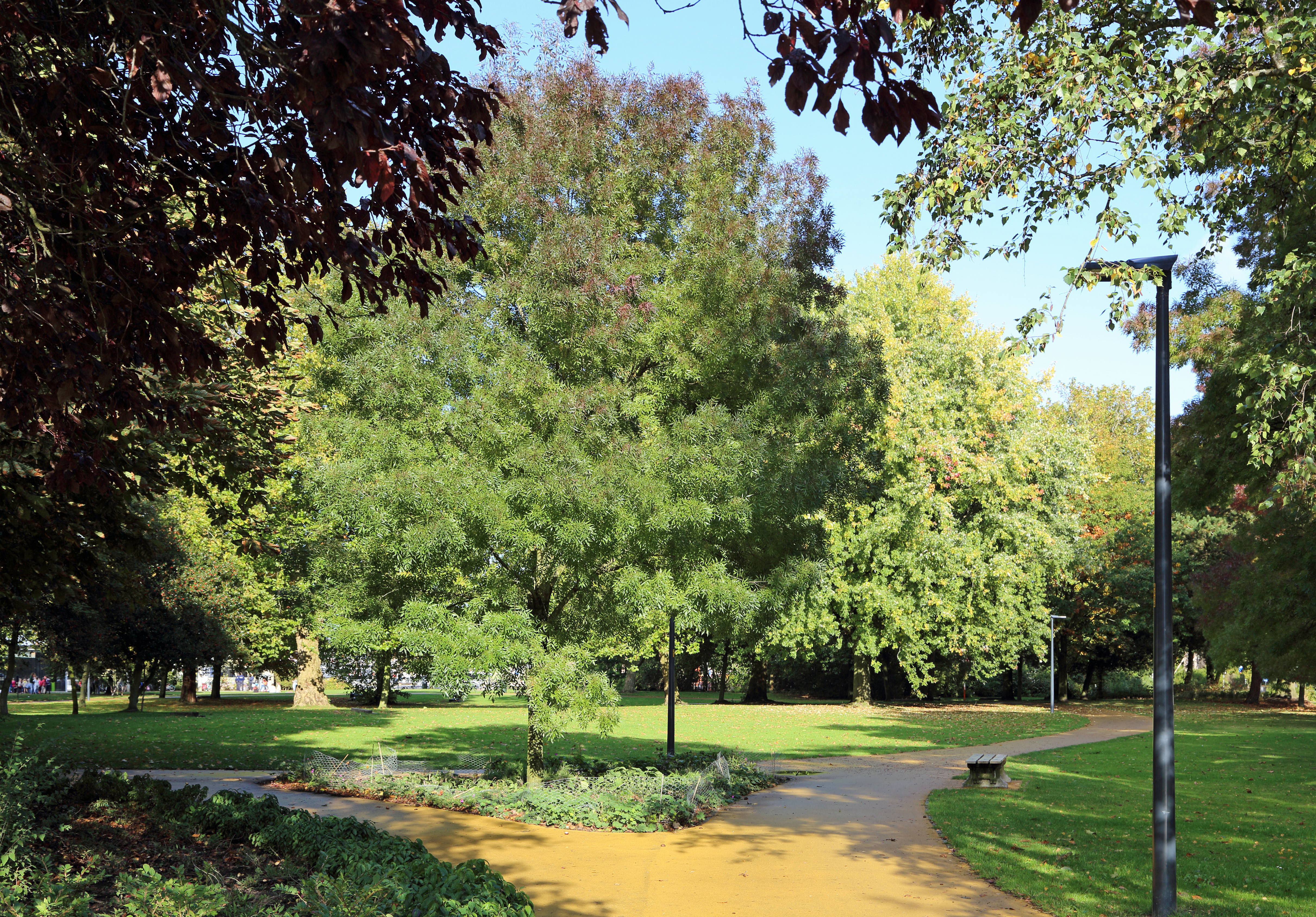 Bruges (Belgium): Baron Ruzette Park